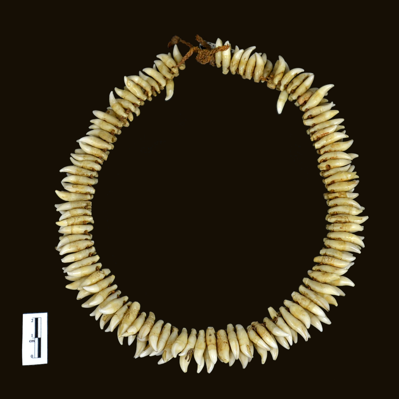 Kanak necklace in common bottlenose dolphin teeth. Kanak Necklace